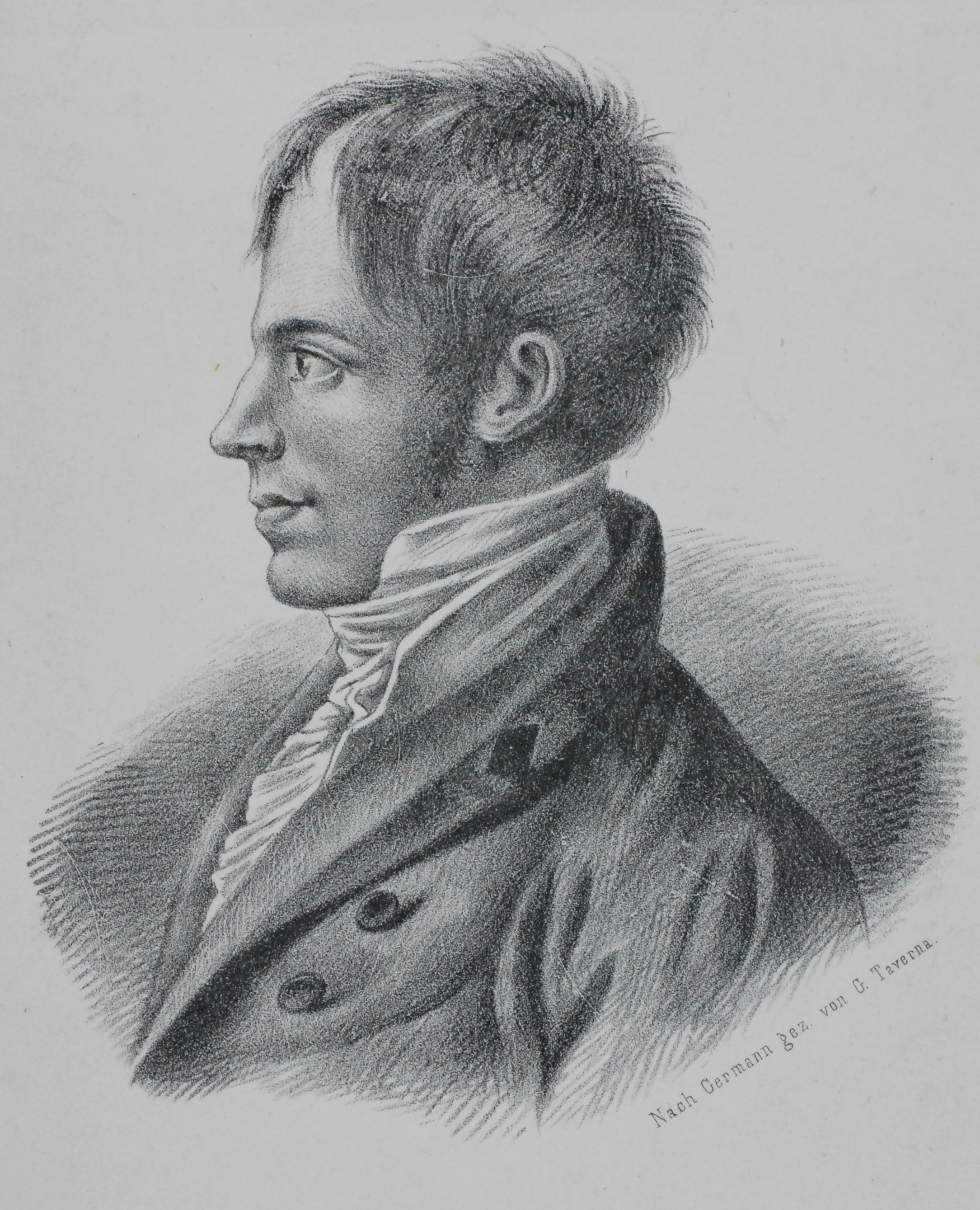 Swiss historian, writer, librarian, and journalist Robert Glutz von Blotzheim (1786-1818). Lithography.